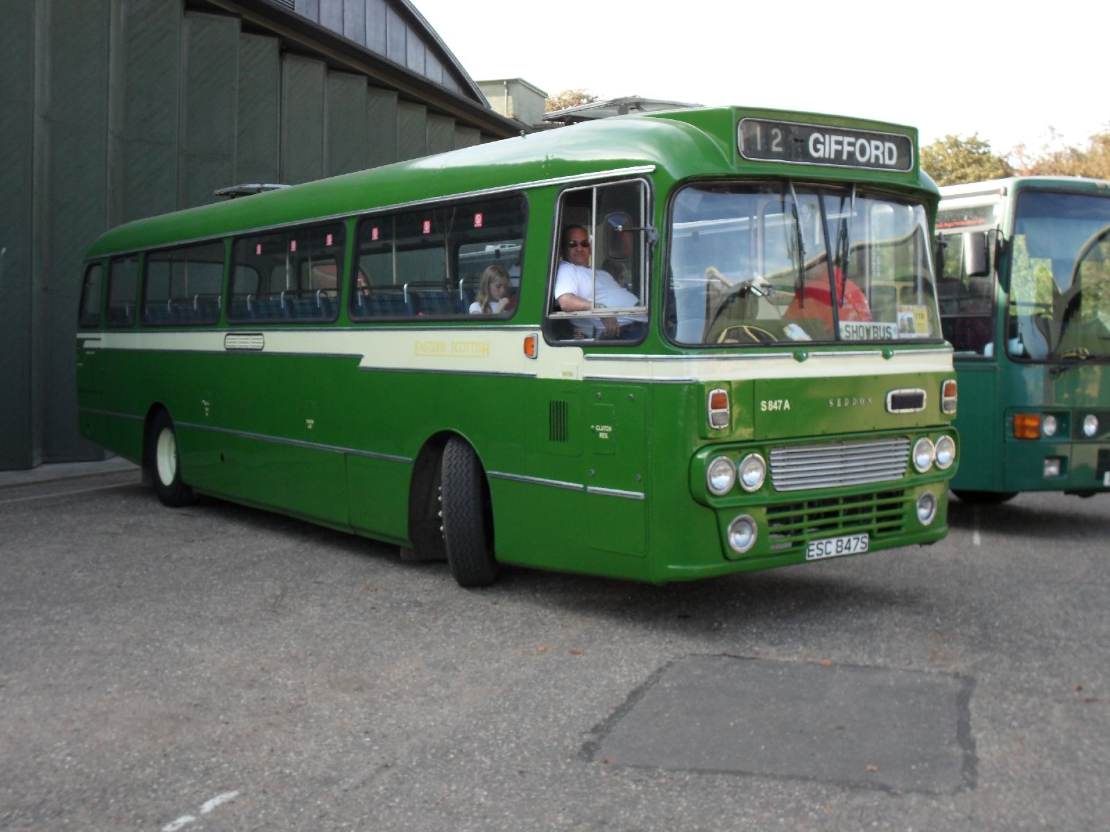 Eastern Scottish S847 ESC847S